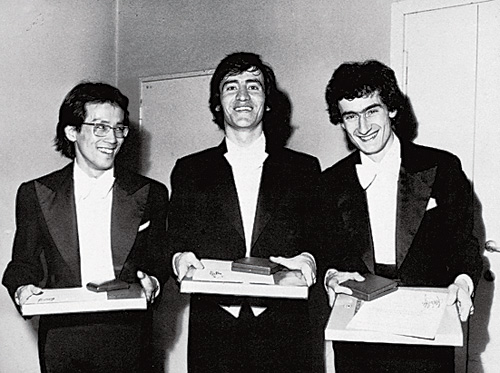 The winners of the Karajan competition in 1977, with Gum Nanse (left), Valery Gergiev (middle) and Jacek Kaspszyk (right) (source).